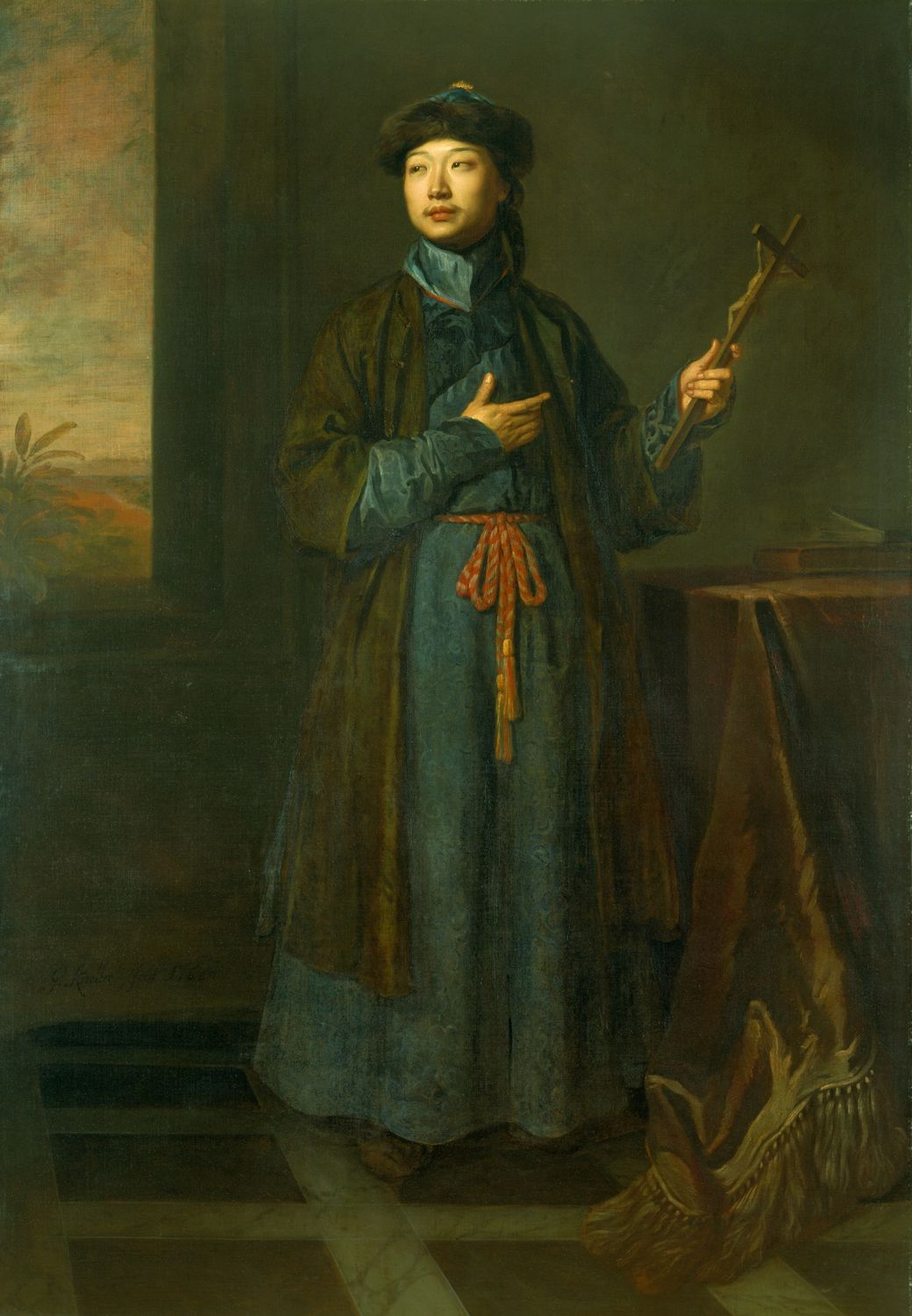 Previously identified as "Francis Couplet, a Chinese Missionary," previously called Father Philippe Couplet.